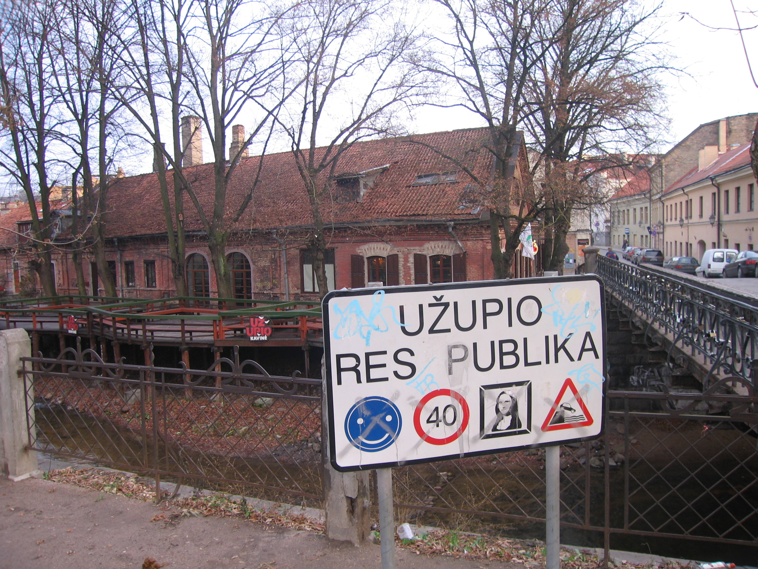 Border sign of the Užupis Republic